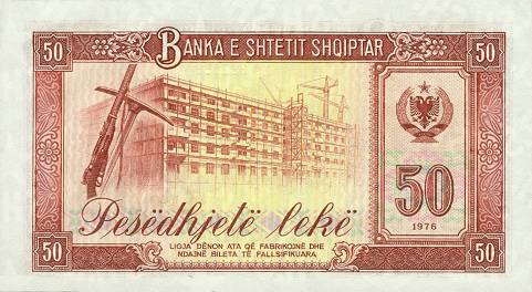 50 lek Albanian banknote showing pickaxe and rifle symbol - copied from Text of page says "You can use the images of this page freely. In case you do, a reference to the home page of this site is appreciated. / Le immagini di questa pagina possono essere usate liberamente. Nel caso è gradito un riferimento alla home page di questo sito."